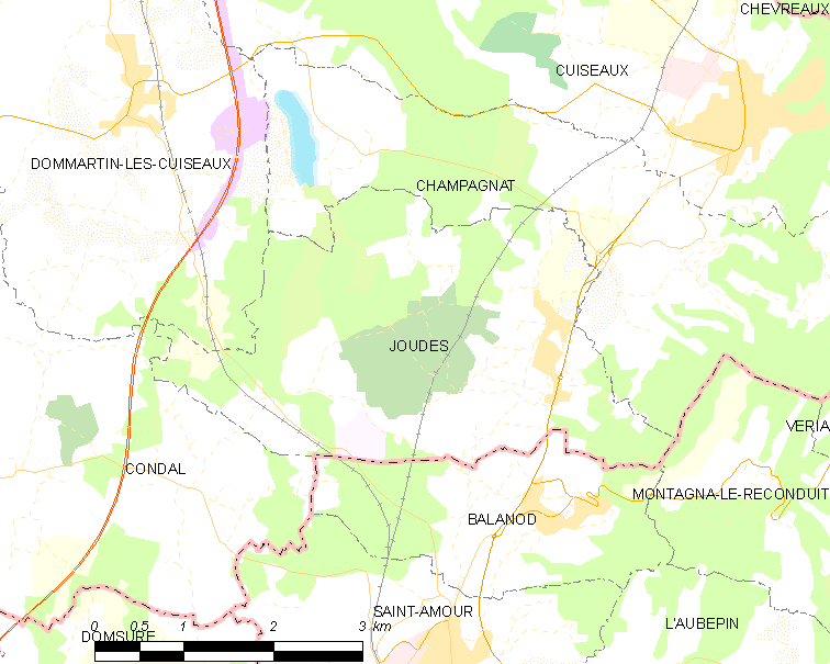 Map of French municipality Joudes